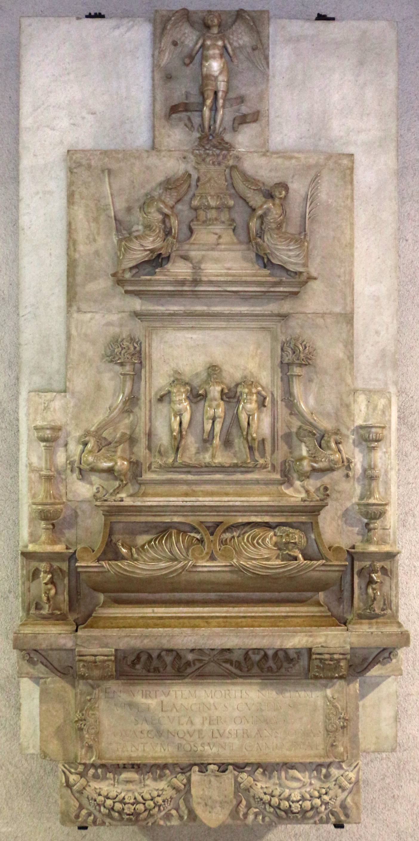 Museo d'arte antica (Milan) - 16th-century sculptures